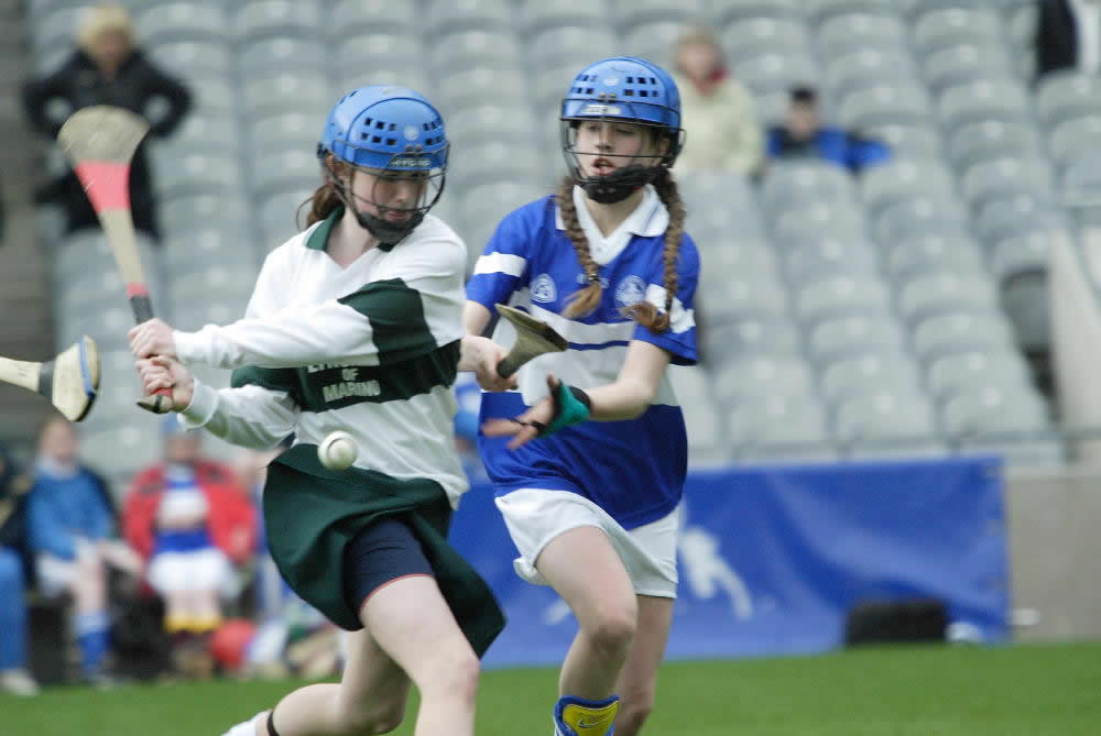 A Camogie game being played at Croke Park, Dublin, Ireland